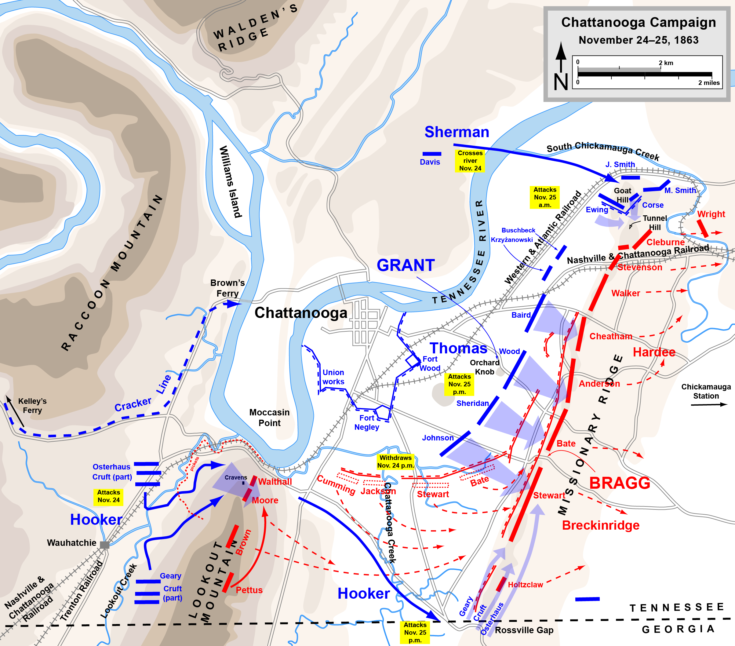 Map of part of the Chattanooga Campaign (the Battles for Chattanooga, Nov. 24-25, 1863) of the American Civil War. Drawn in Adobe Illustrator CS5 by Hal Jespersen. Graphic source file is available at